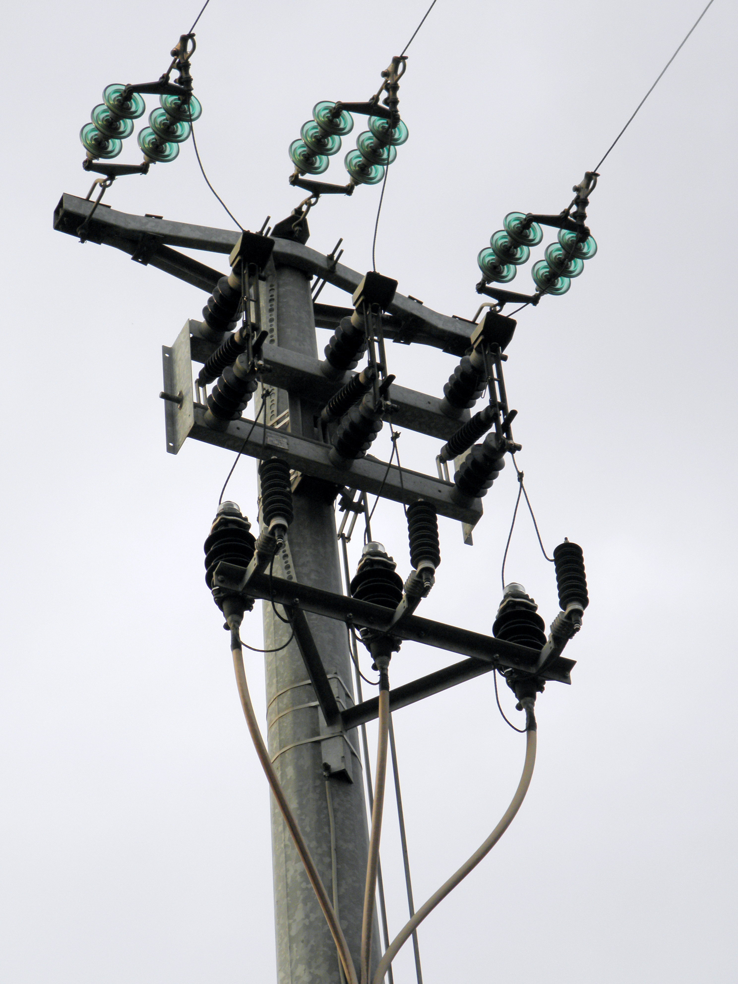 Utility pole and disconnecting switch in a medium voltage line.